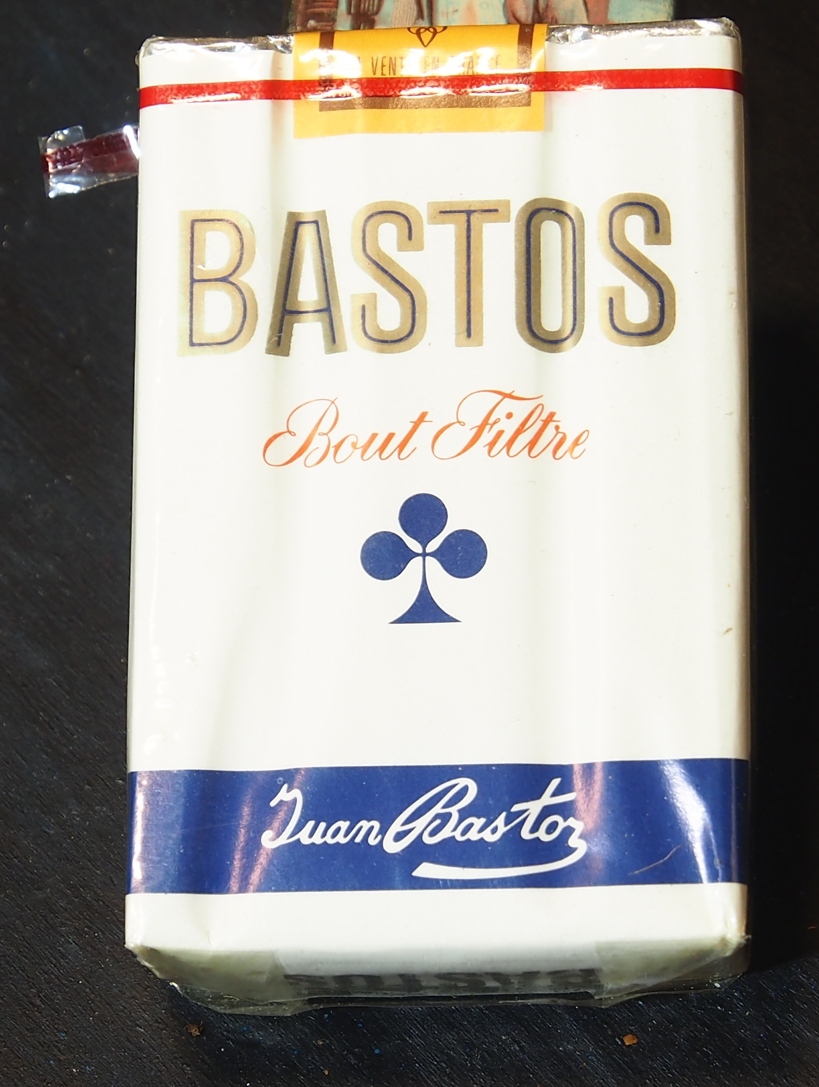 Old product not sold anymore!